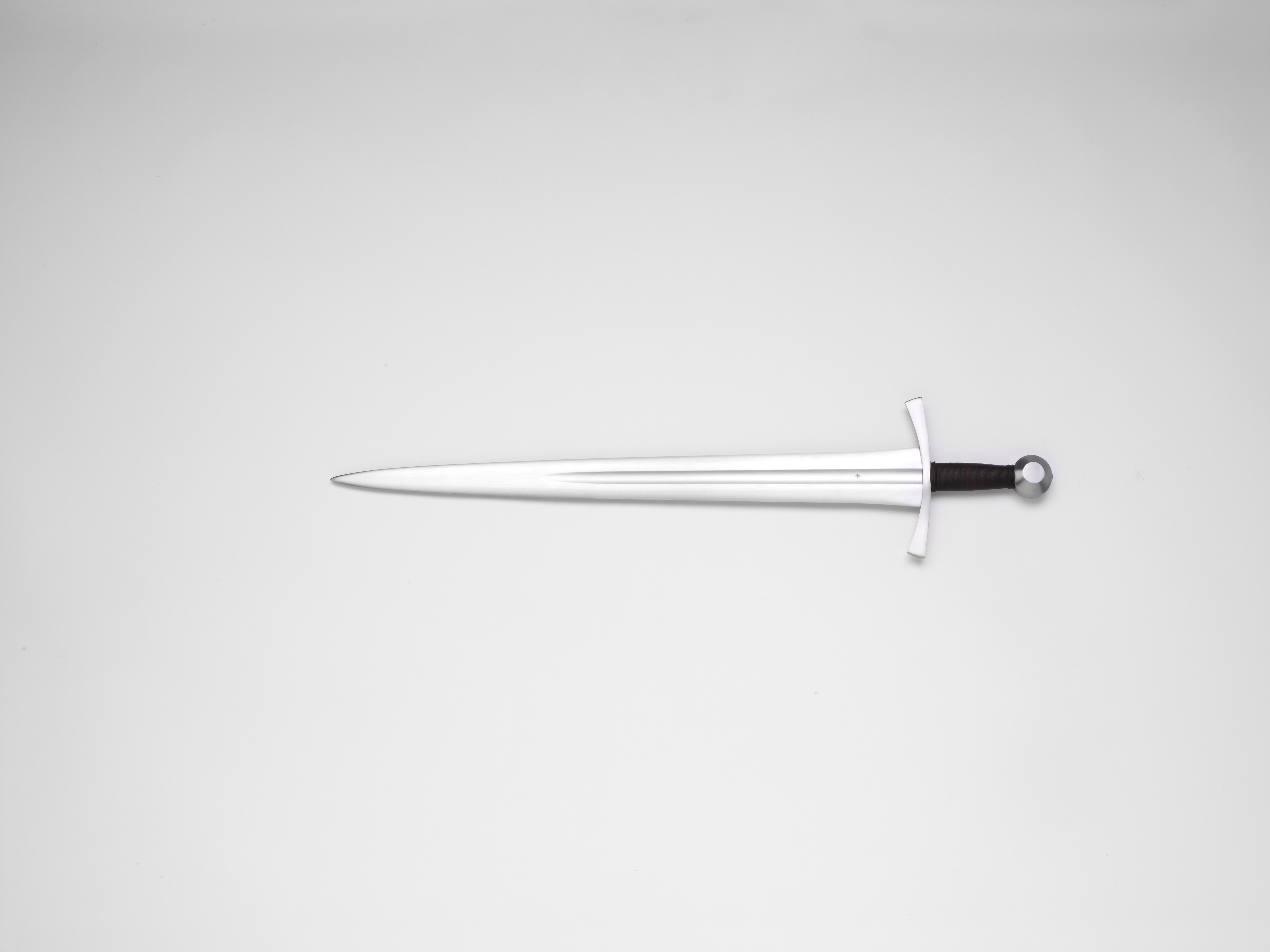 The Sherriff Limited Edition Medieval Sword